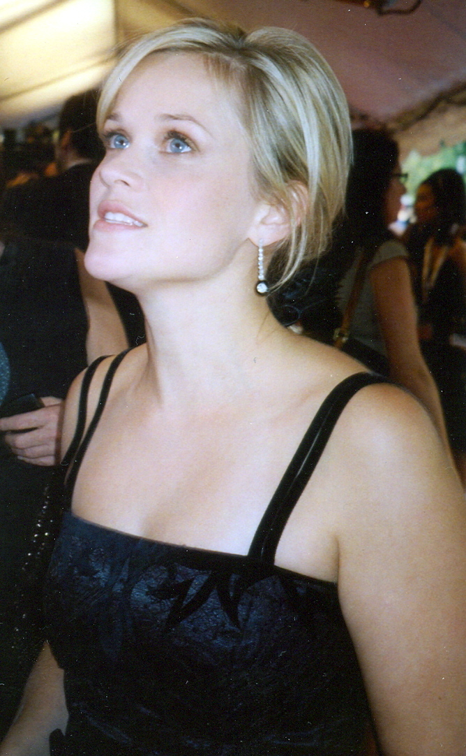 Reese Witherspoon being interviewed at the premiere of Walk The Line. It's with Jerry Pinnocoli of Extra. He's like 6'8. She's alot shorter. Premiere of Walk the Line, Toronto Film Festival 2005